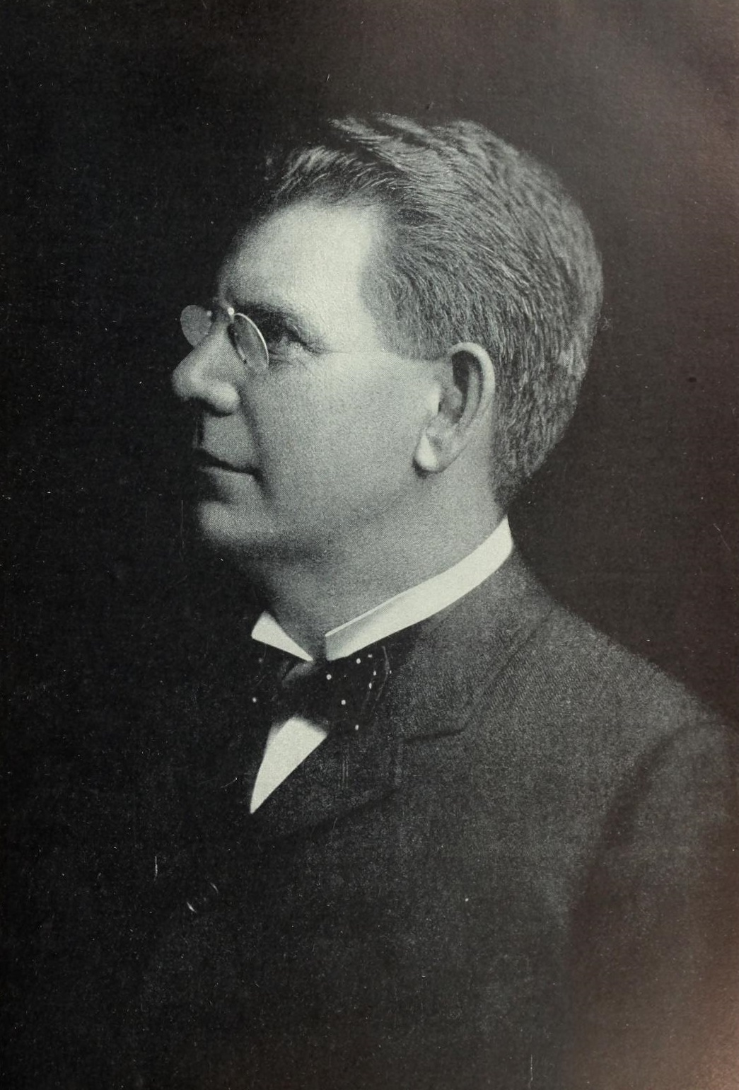 Portrait of William Henry Moore